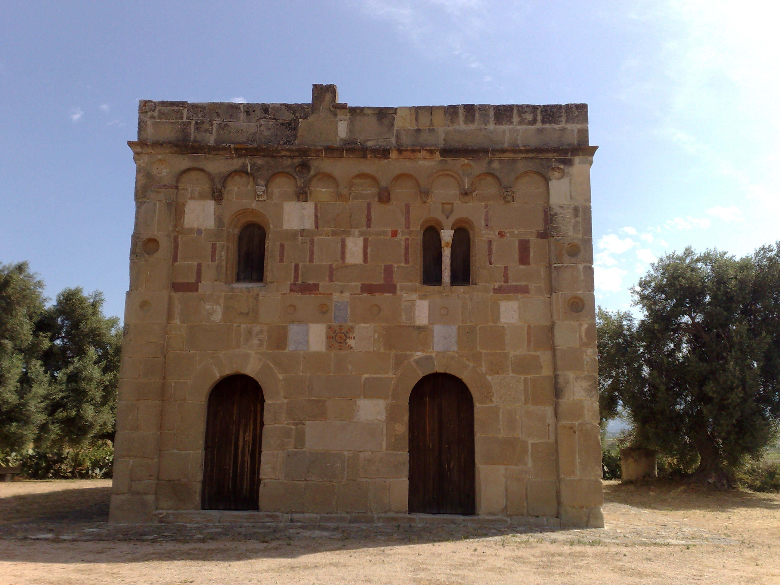 Santa Maria Sibiola